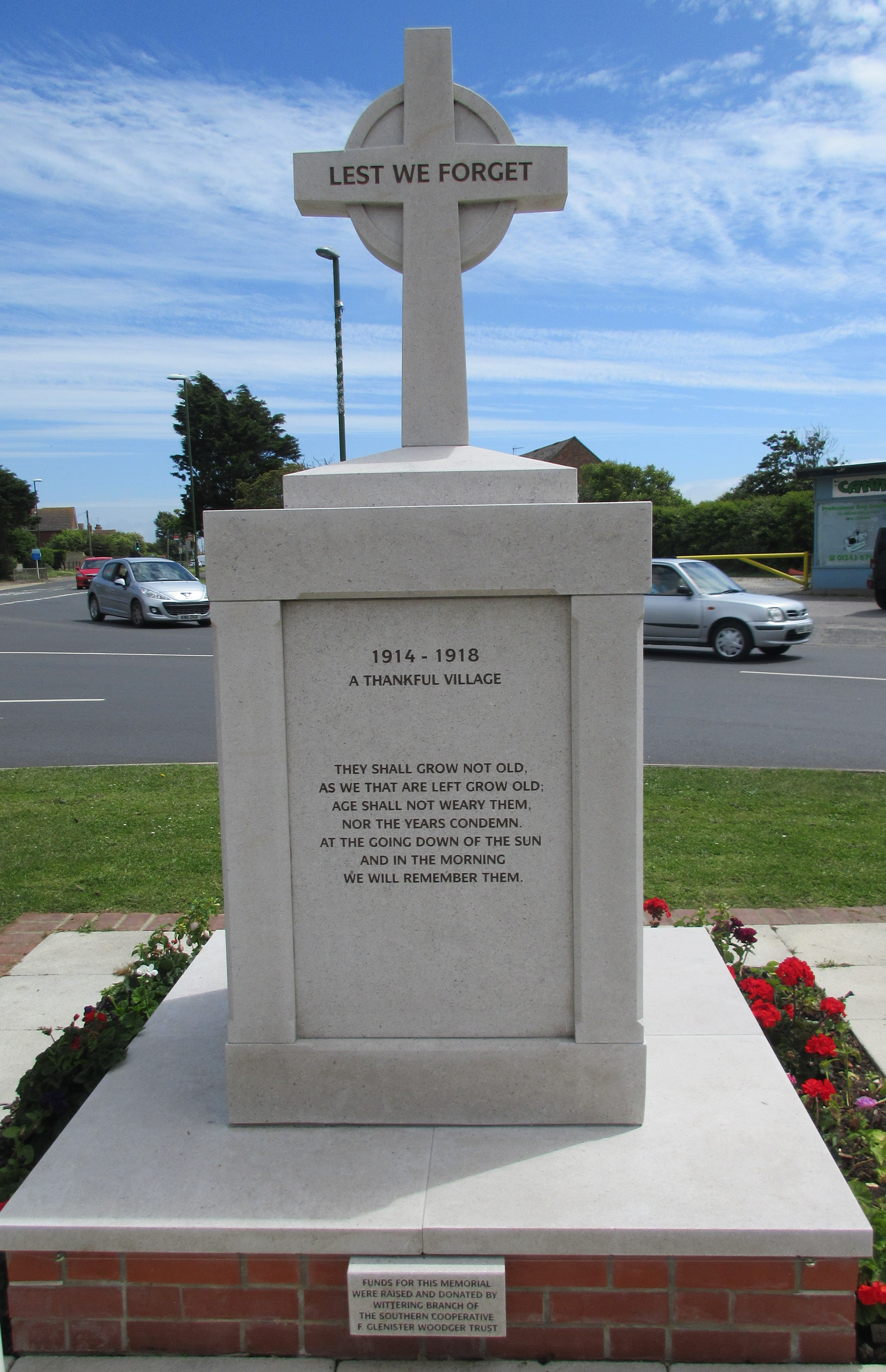 War Memorial in East Wittering depicting WW1 Thankful Village west face